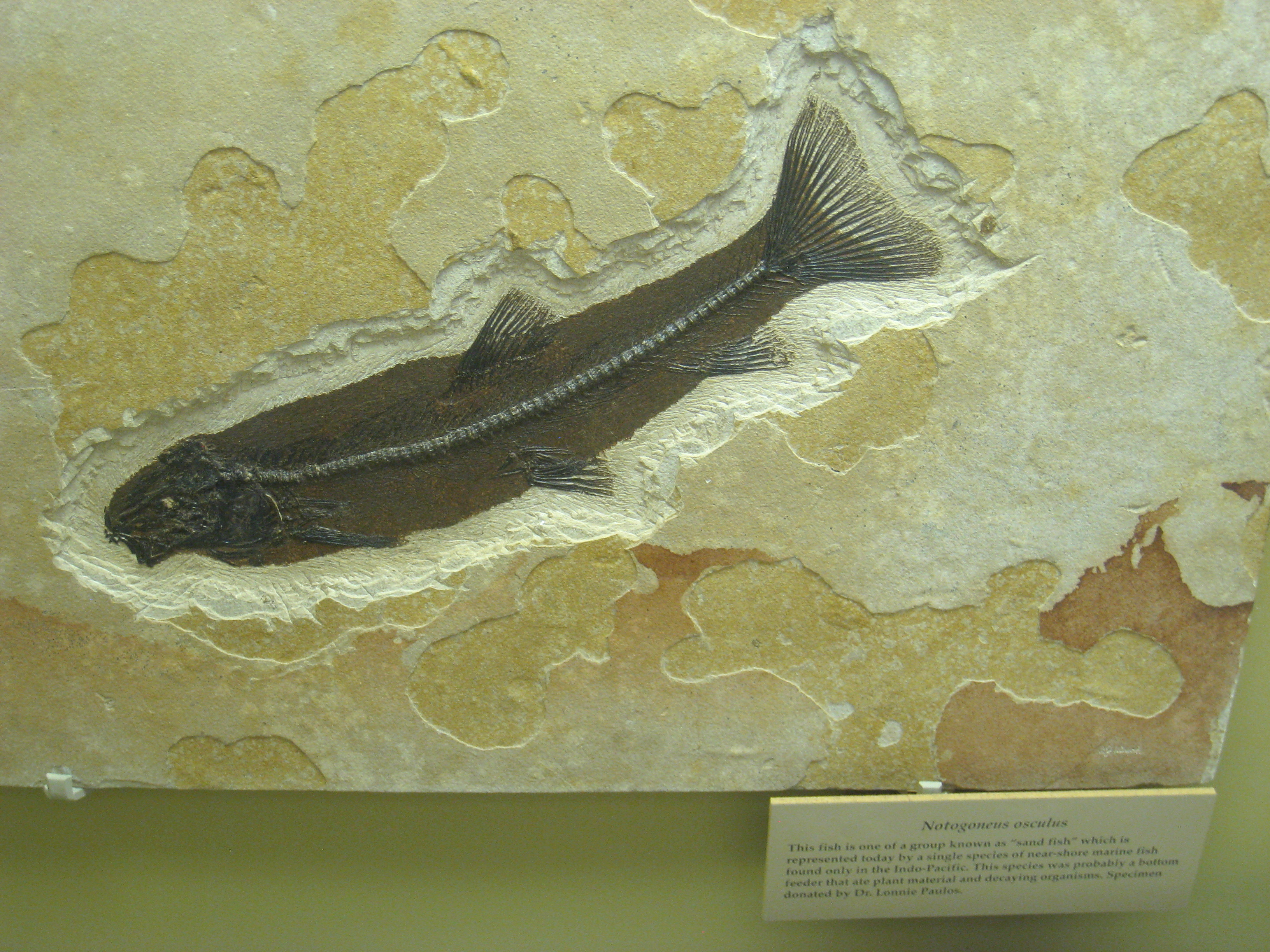 Notogoneus osculus fossil in the Utah Museum of Natural History, Salt Lake City, Utah, USA.